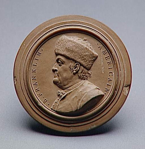 Portrait of Benjamin Franklin